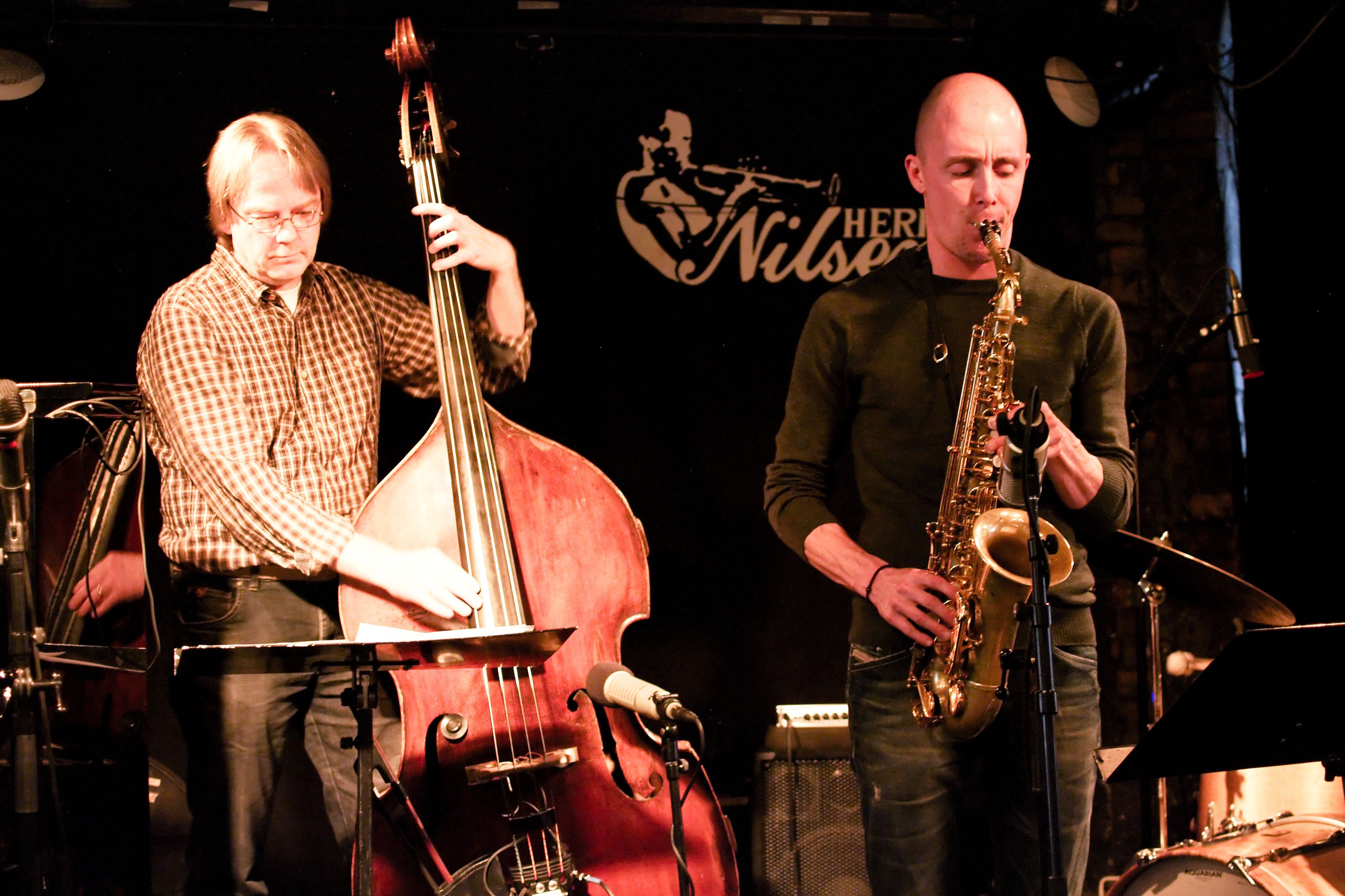 Terje Gewelt (left) and Frode Nymo from a concert at Herr Nilsen in Oslo.